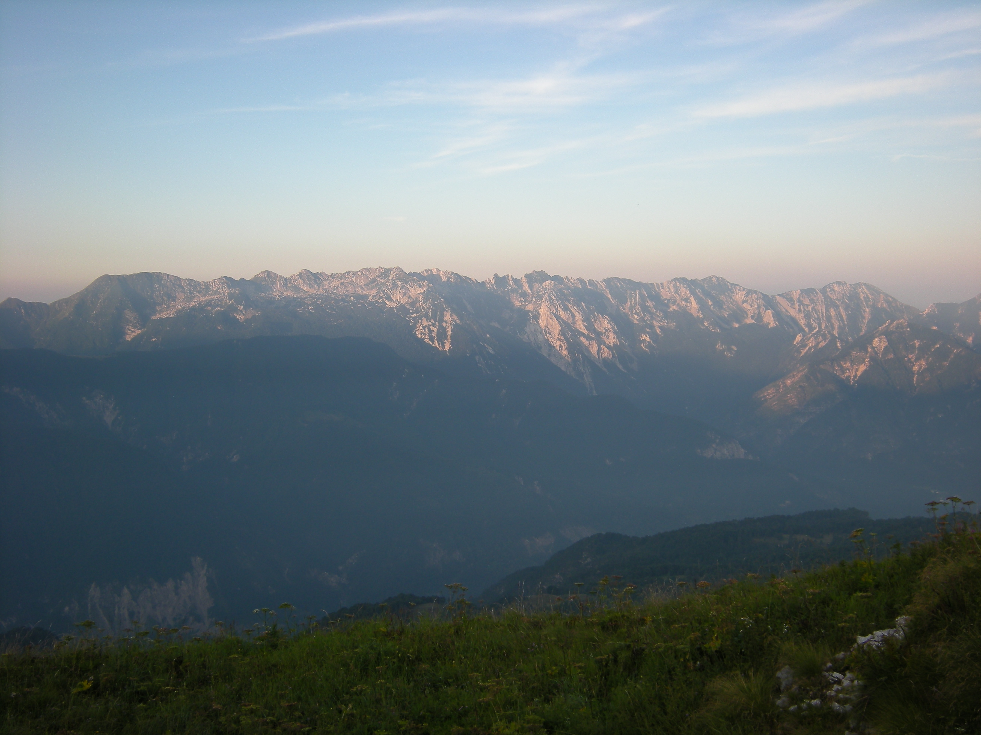 Musi Mountains as seen from north